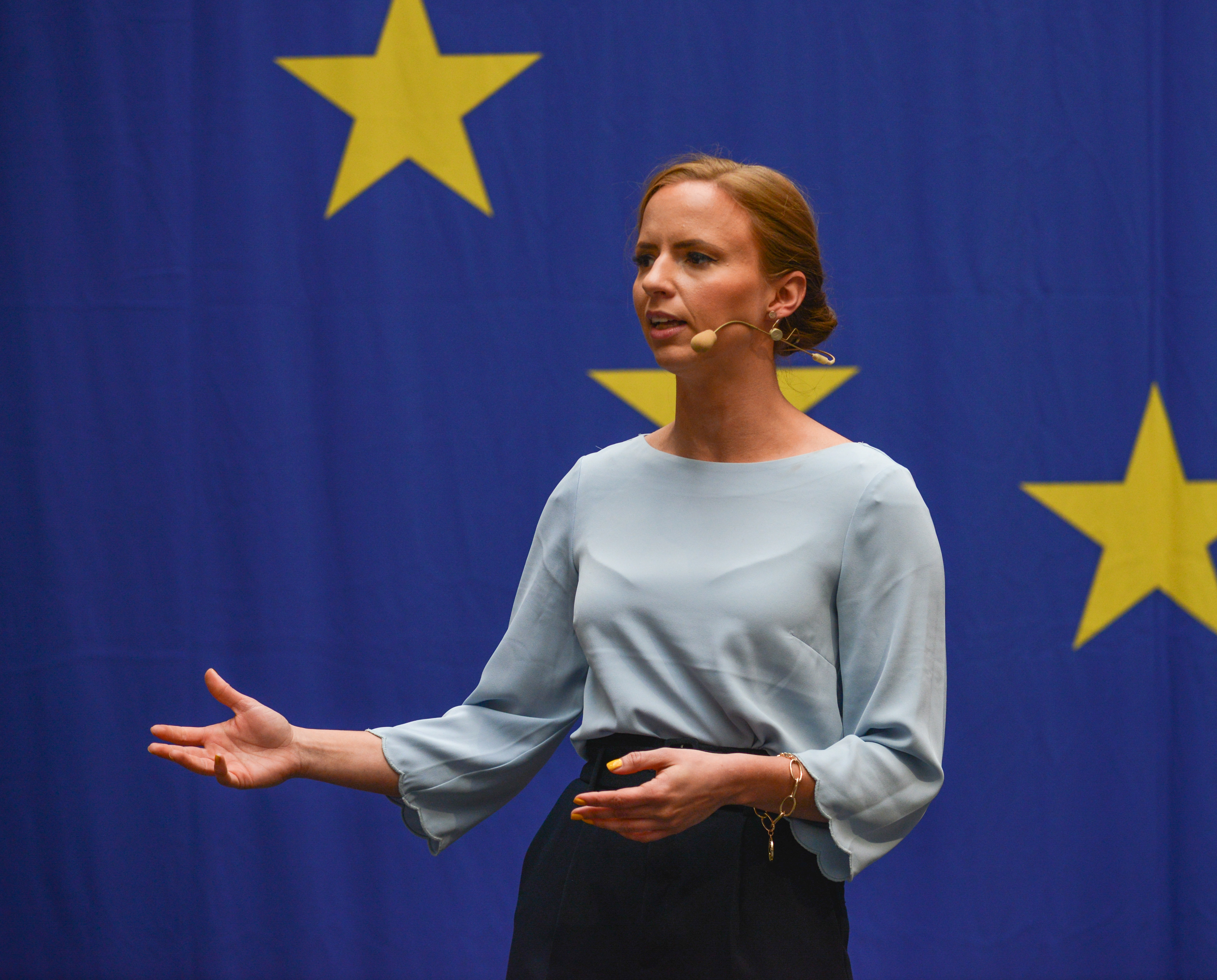 Campaigns for the 2014 European Parliament election in Sweden.